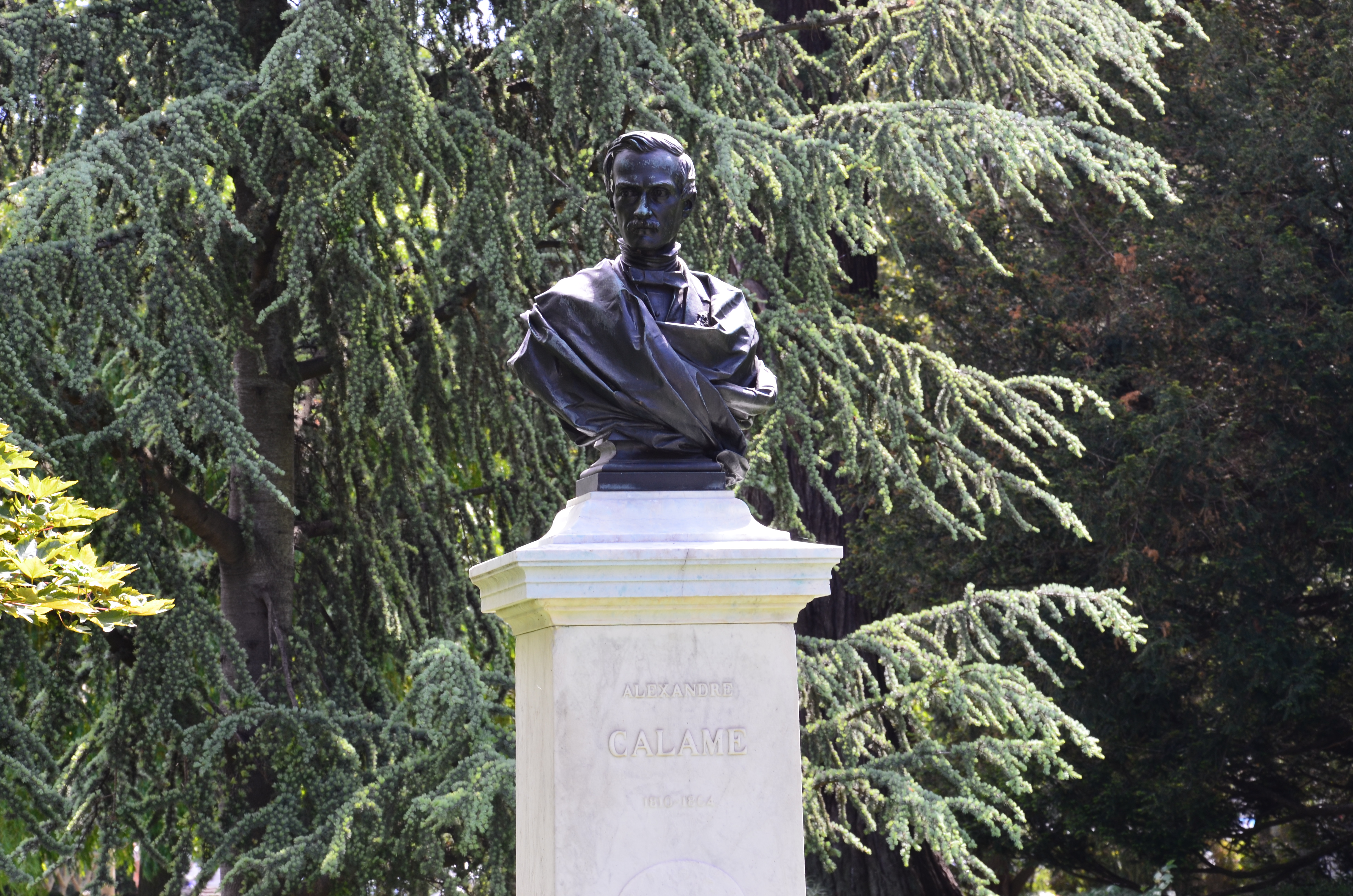 Monument of Swiis painter Alexandre Calame installed in Geneva